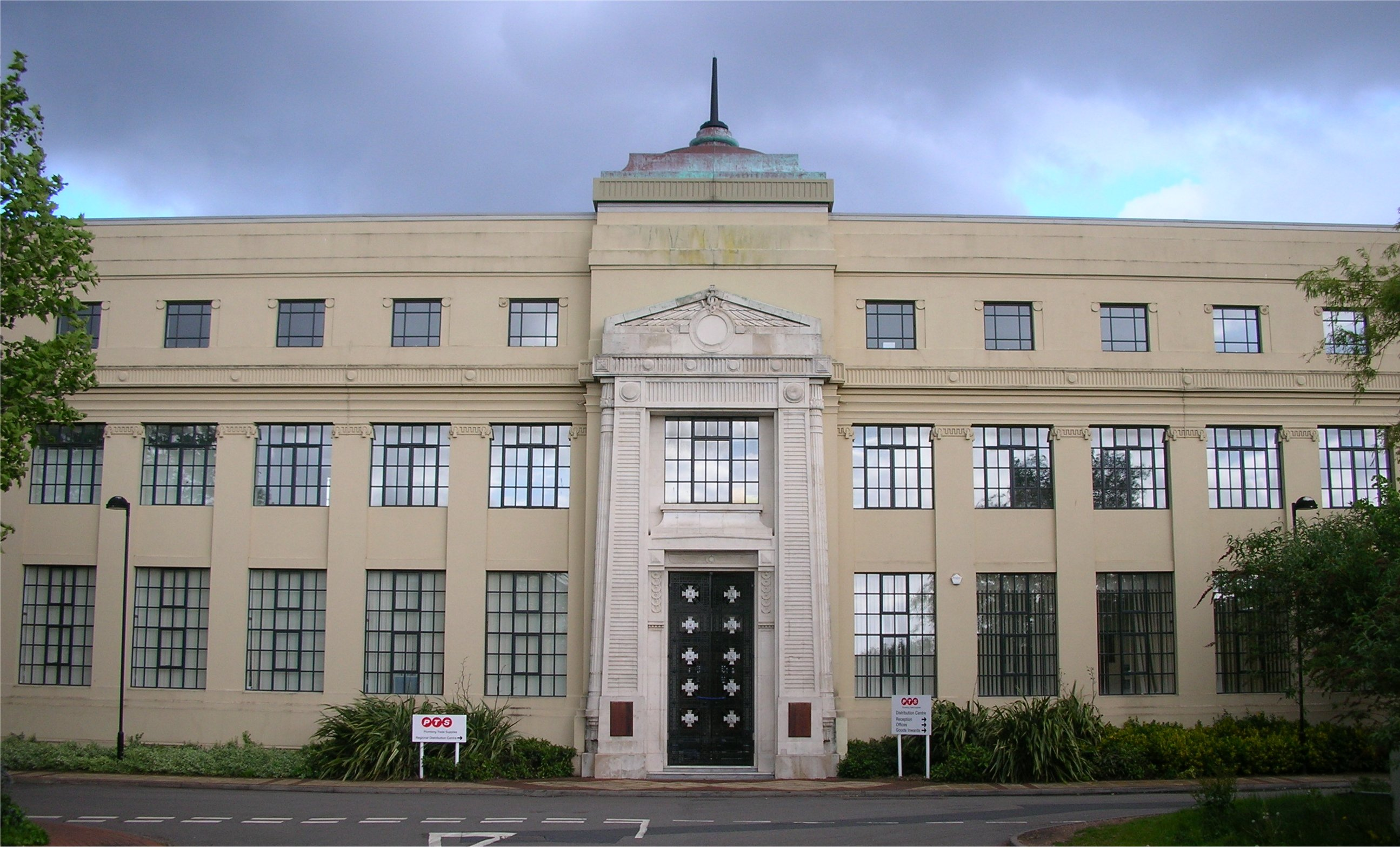 The former Art deco office buildings of The General Electric Company plc in Electric Avenue, Aston, Birmingham, England. Designed by Wallis, Gilbert and Partners 1920-2. Now retained as a façade to a modern warehouse. Photographed by me 12 May 2007. Oosoom